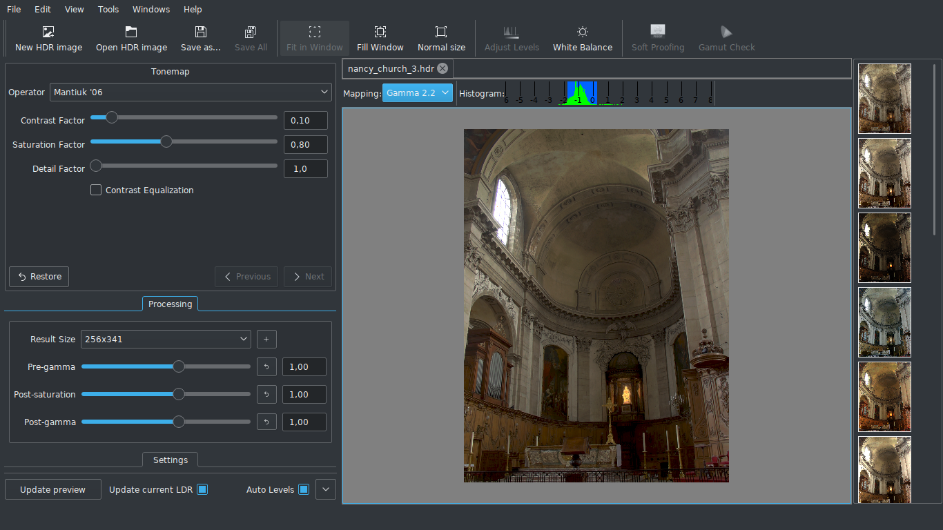 v.2.6.0 main window screenshot